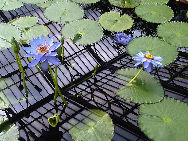 Australian Water-lily (Nymphaea gigantea) in Kew Gardens, England.